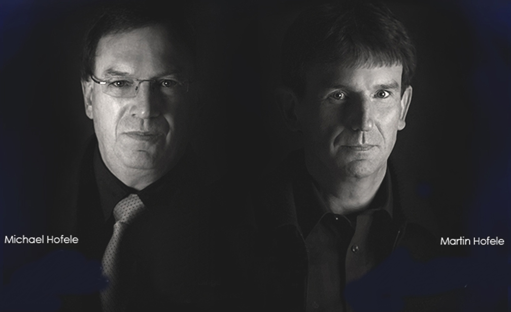 Photo of Michael and Martin Hofele